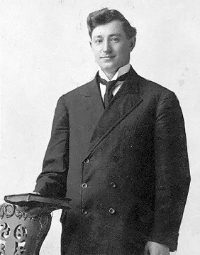 foto